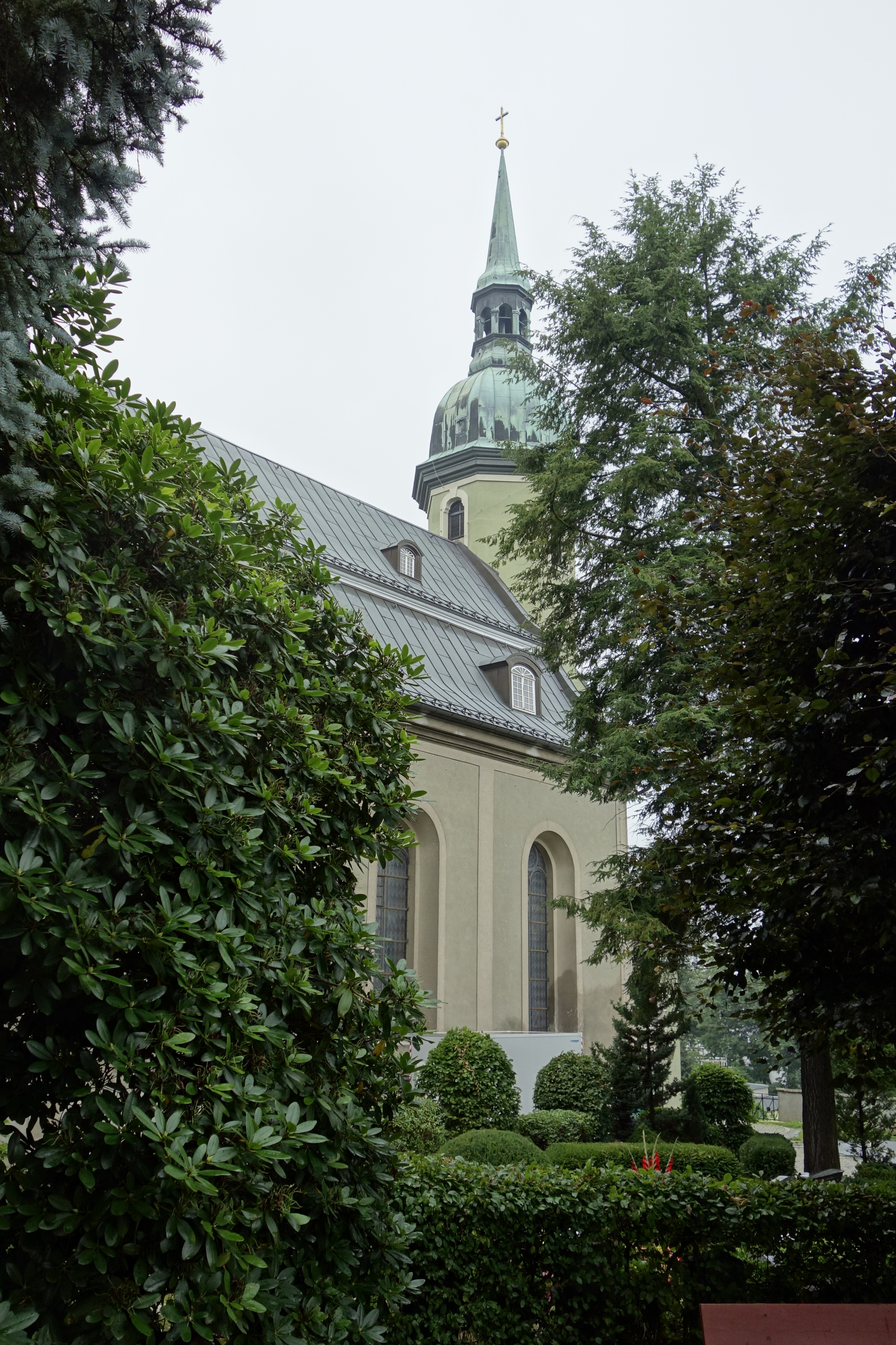 Unknown language: Kirche Ebersbach August 2017 (8)